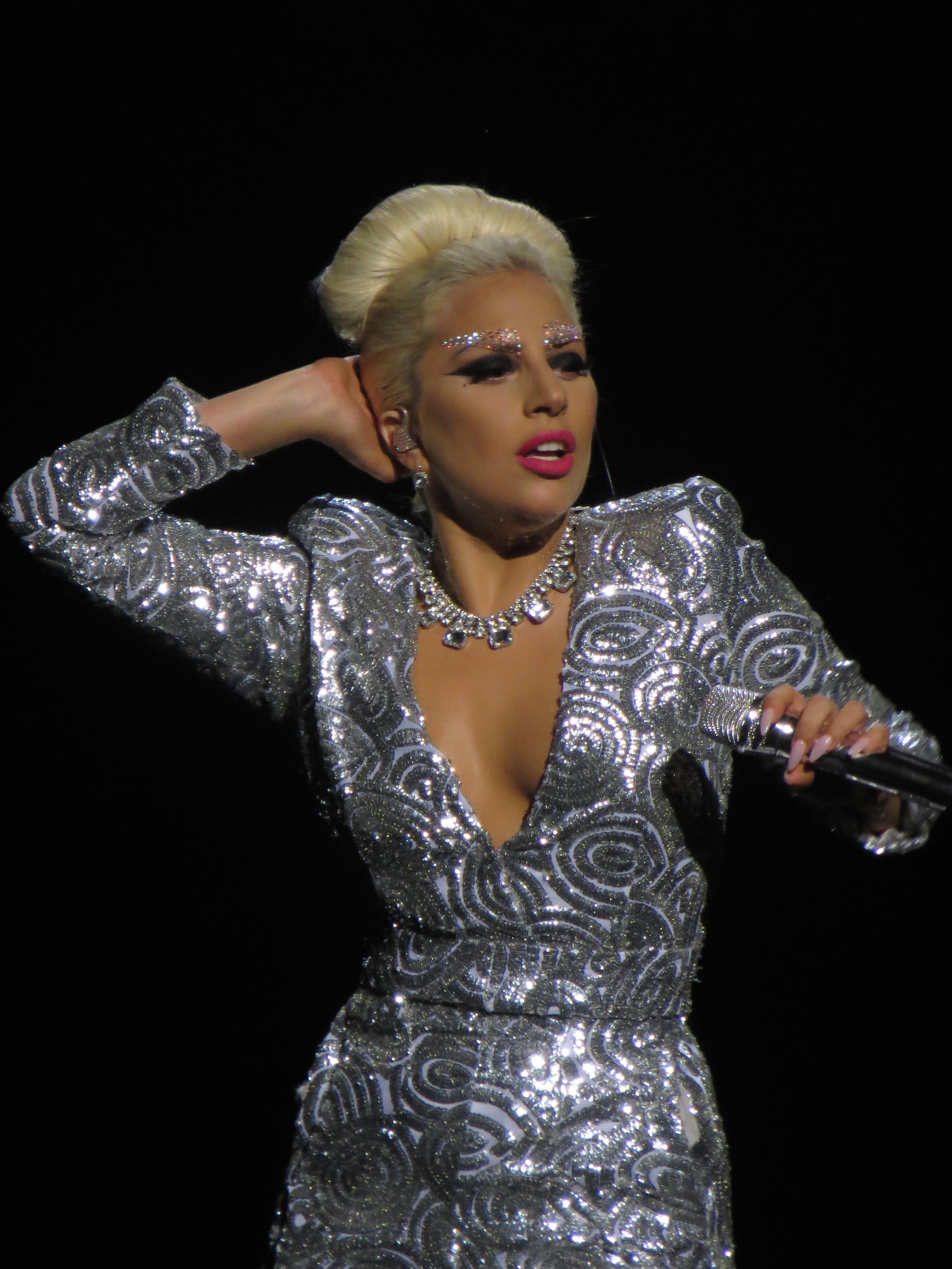 Tony Bennett & Lady GaGa, Cheek to Cheek Tour, London Royal Albert Hall, 8 June 2015.